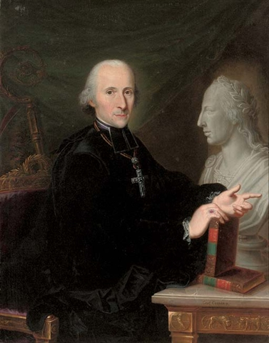 Portrait of a cleric a book in his right hand, by a marble bust